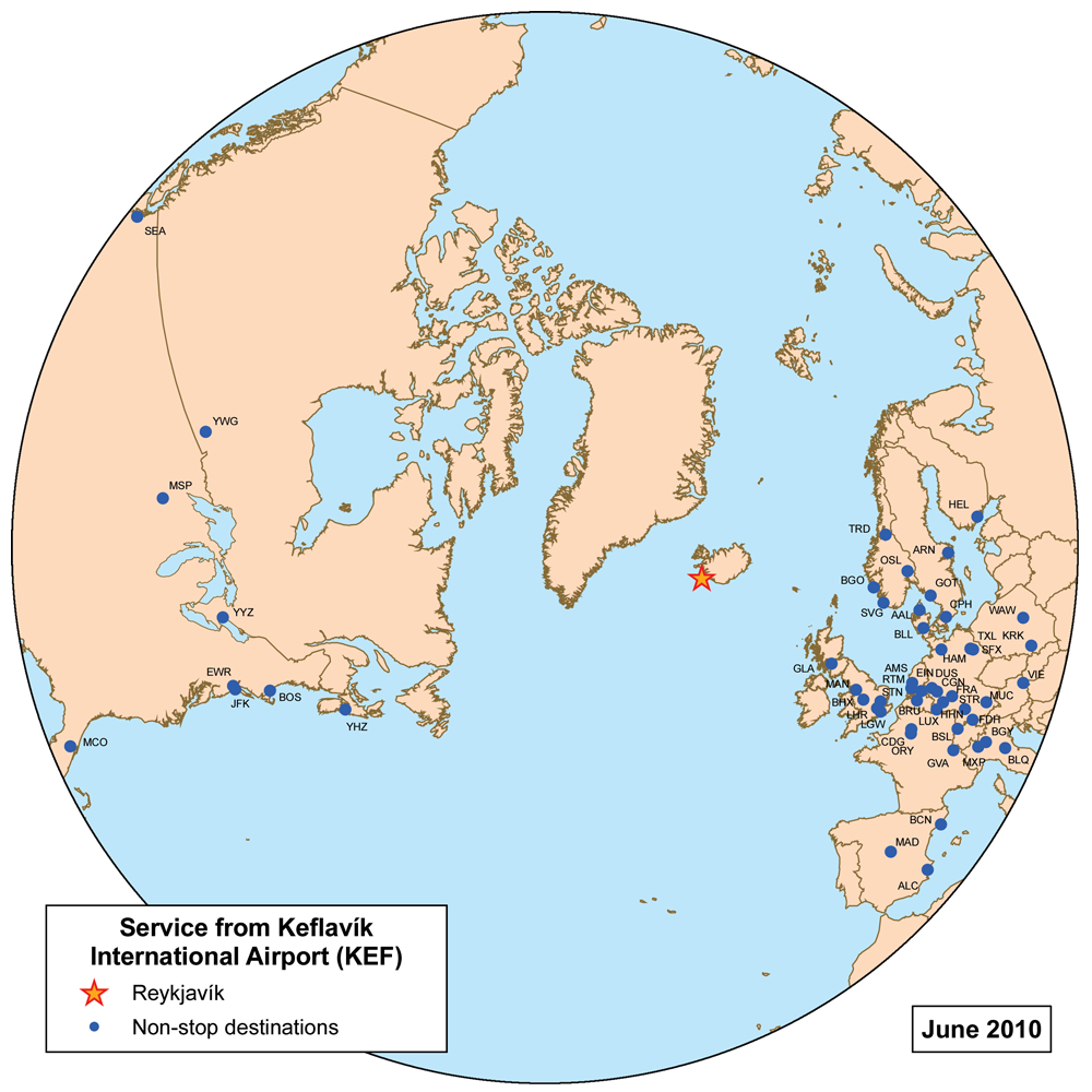 This is a route map for Keflavík International Airport as of June 2010. Map is an Azimuthal equidistant projection centered on the airport so straight lines from Reykjavík are along great circle routes.